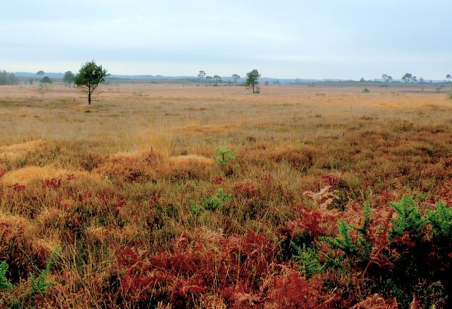 Holt Heath and Forest Dorset View across the north side of the heath from close to the road from Mannington to Holt. This is one of the largest tracts of heathland left in Dorset, now owned by the national Trust. Only 15 per cent of the original acreage of this rare habitat now remains in Dorset. It is also a Nature reserve. Originally the local commoners' practice of grazing stock and gathering firewood kept the heath in this condition. Nowadays this has to be done artificially to preserve the heath and it rare flora and fauna. Thomas Hardy made this kind of heathland famous in his books such as Return of the Native